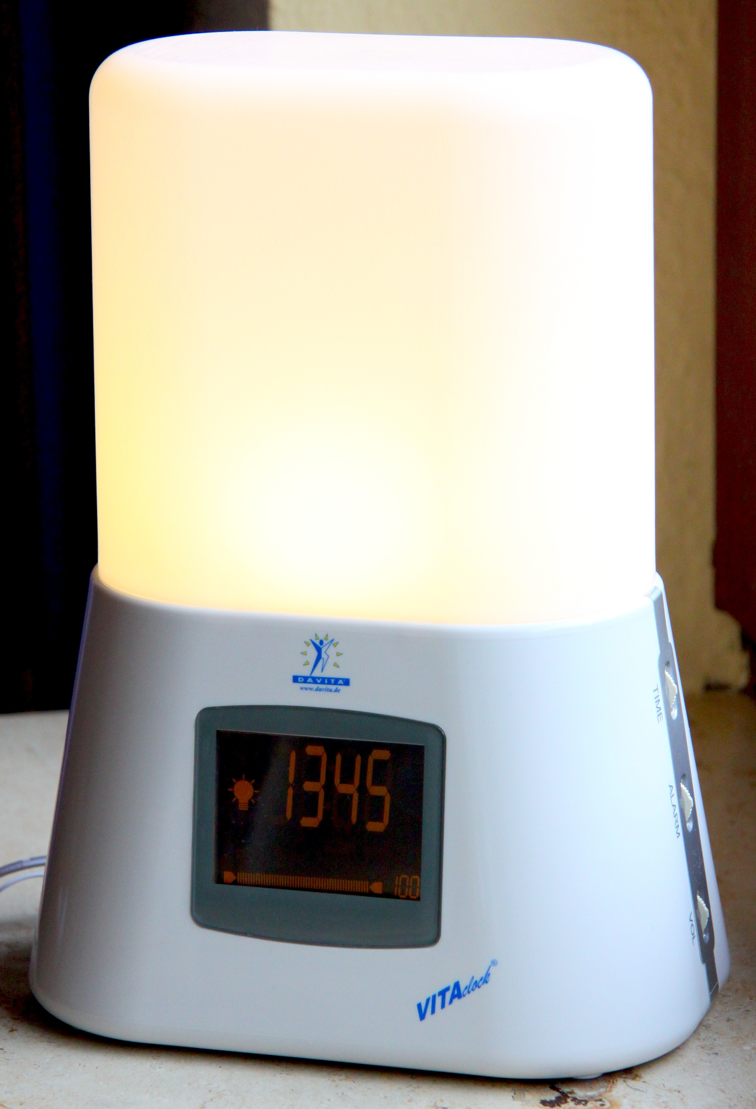 VITAclock 200, a dawn simulator by Davita, at full brightness (daylight)